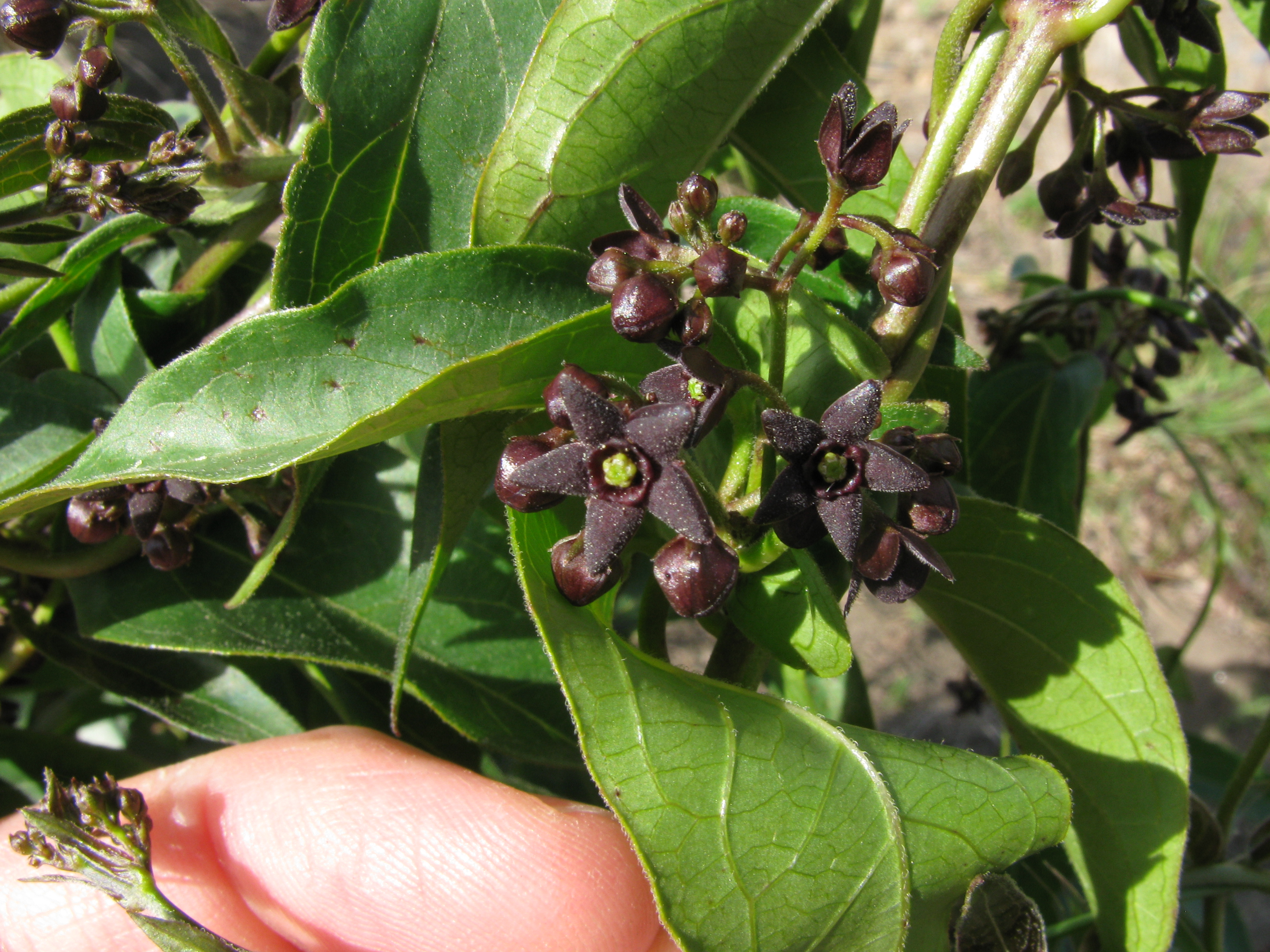 Close-up of the flower of Cynanchum louiseae.